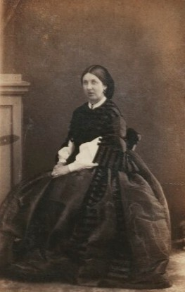 Portrait of Christiana Beresford, Marchioness of Waterford (died 1905).